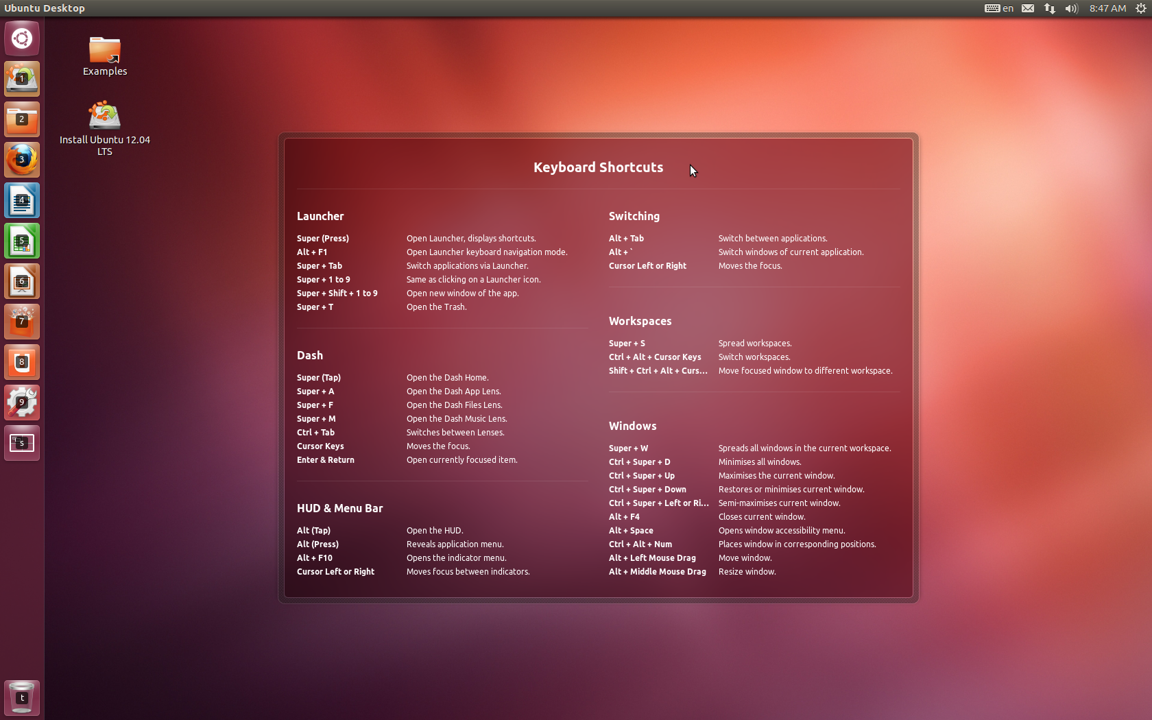 Keyboard shortcuts of Unity in Ubuntu 12.04 LTS - shortcut overlay hint appears by press and hold the Super key